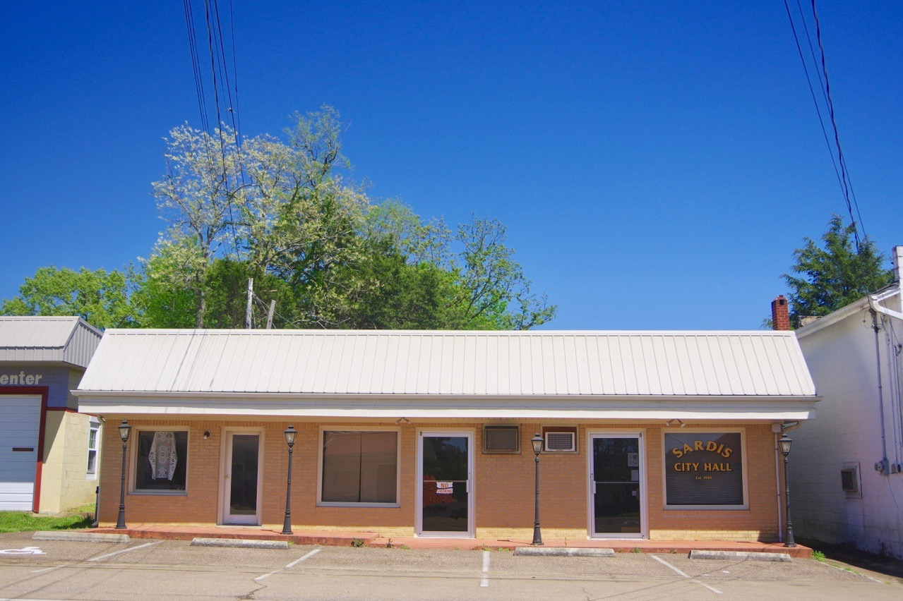 City Hall in Sardis, Tennessee, United States.